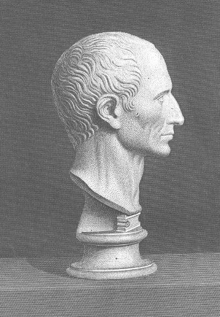 Picture of bust from a frontispiece of James Anthony Froude's book Caesar: A Sketch